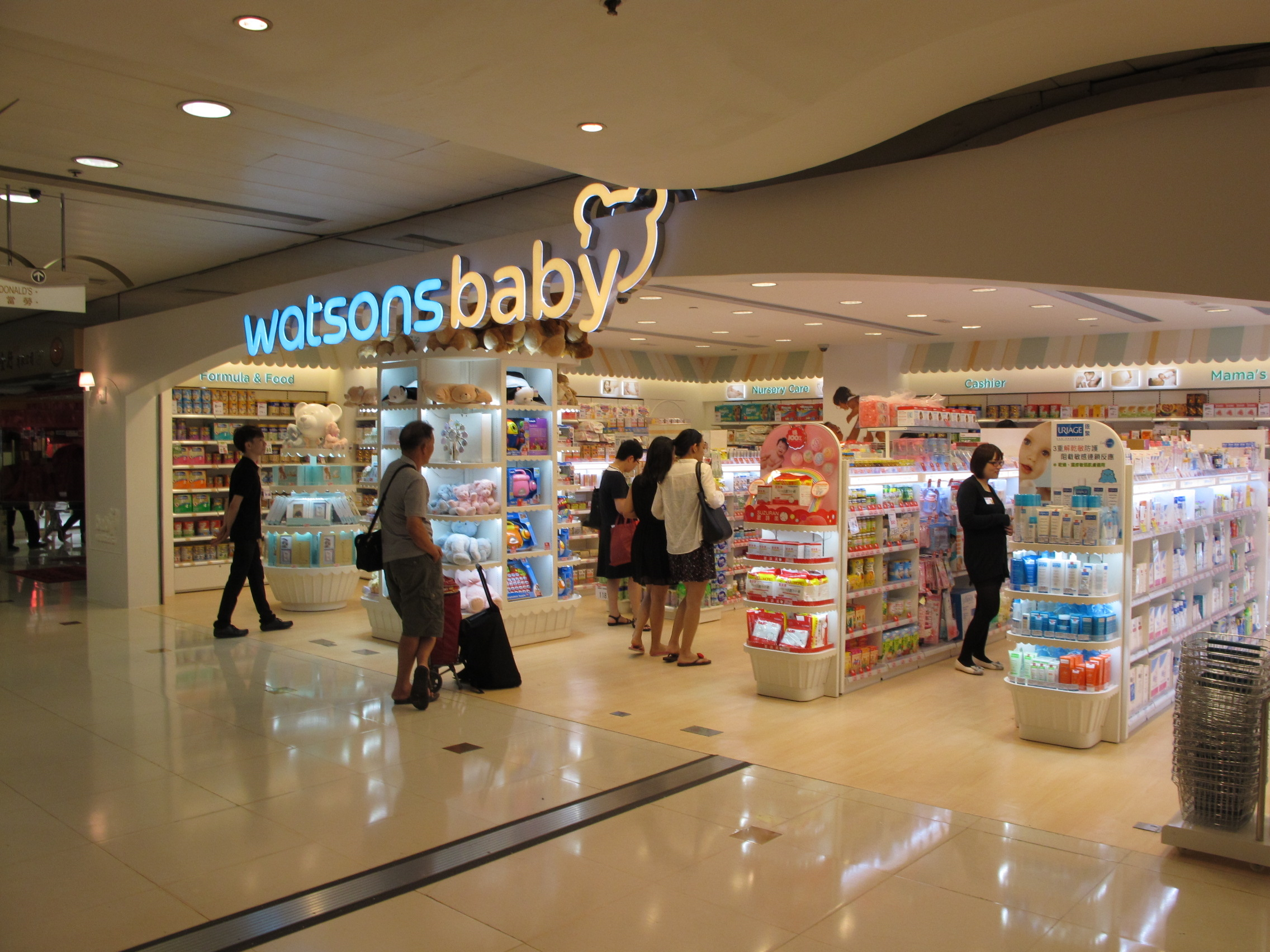 Watsons Baby Store in Shatin Centre